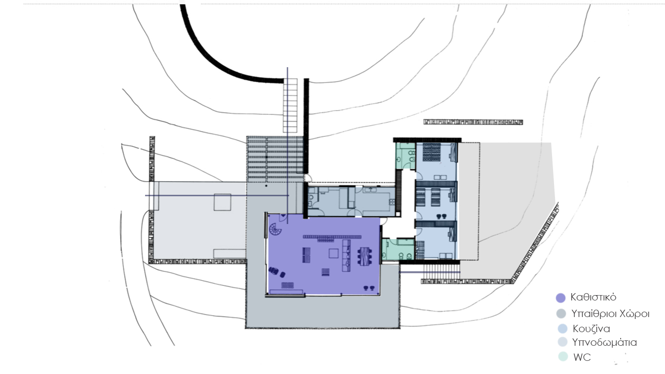 Λειτουργία επιμέρους χώρων